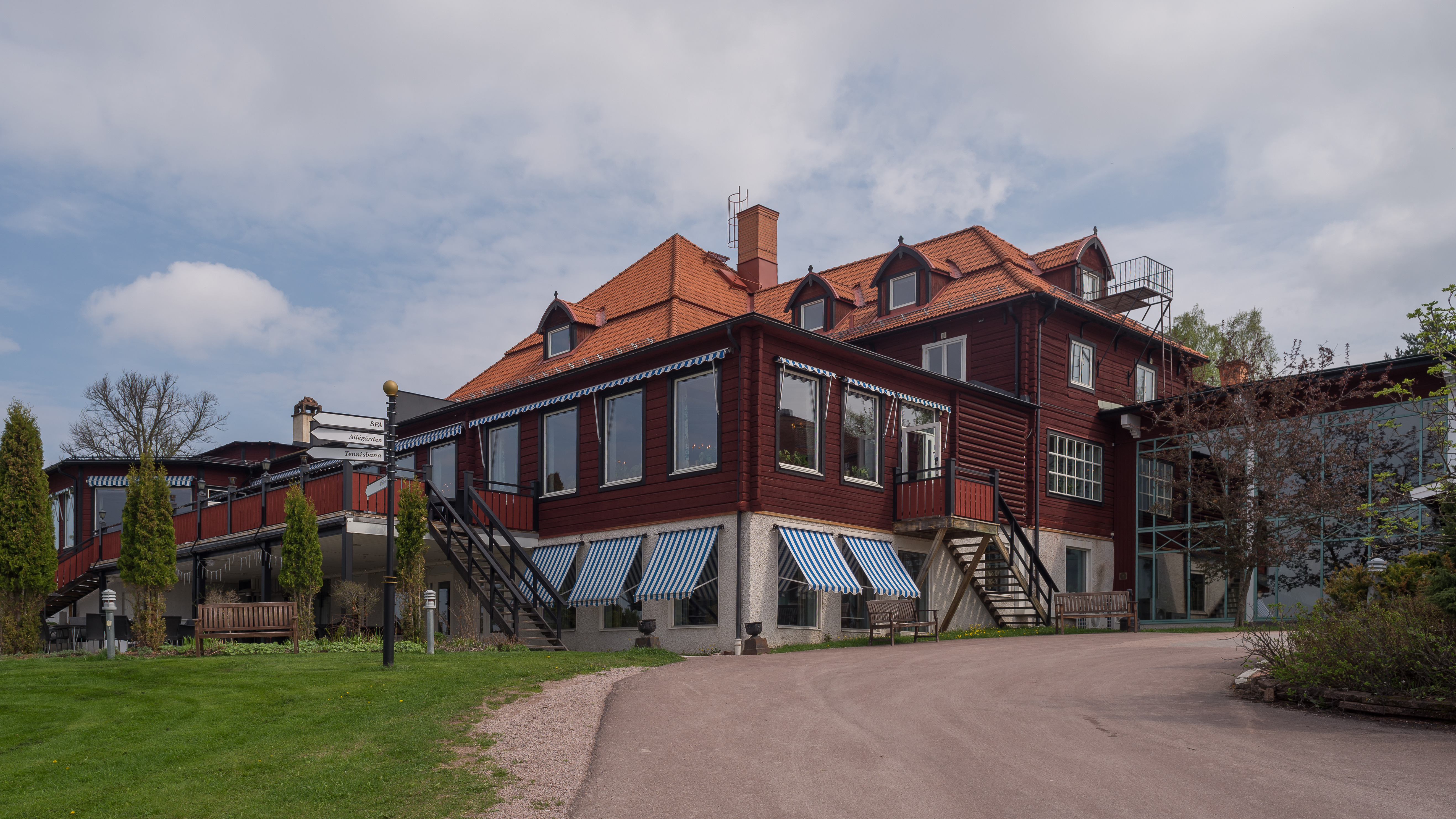 Hotel Dalecarlia in the village of Tällberg in Leksand Municipality. Originaly "Tällgården", built in 1910 for Gösta Mittag-Leffler. Architect Karl Güettler